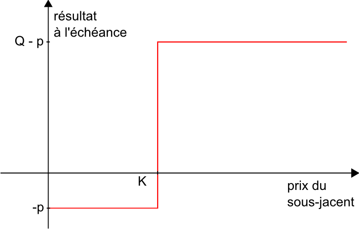 Profil de résultat d'un call binaire - Pay off of a binary call